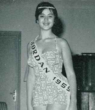 Photo of Miss Jordan 1959 - Ufemia Jabbaji